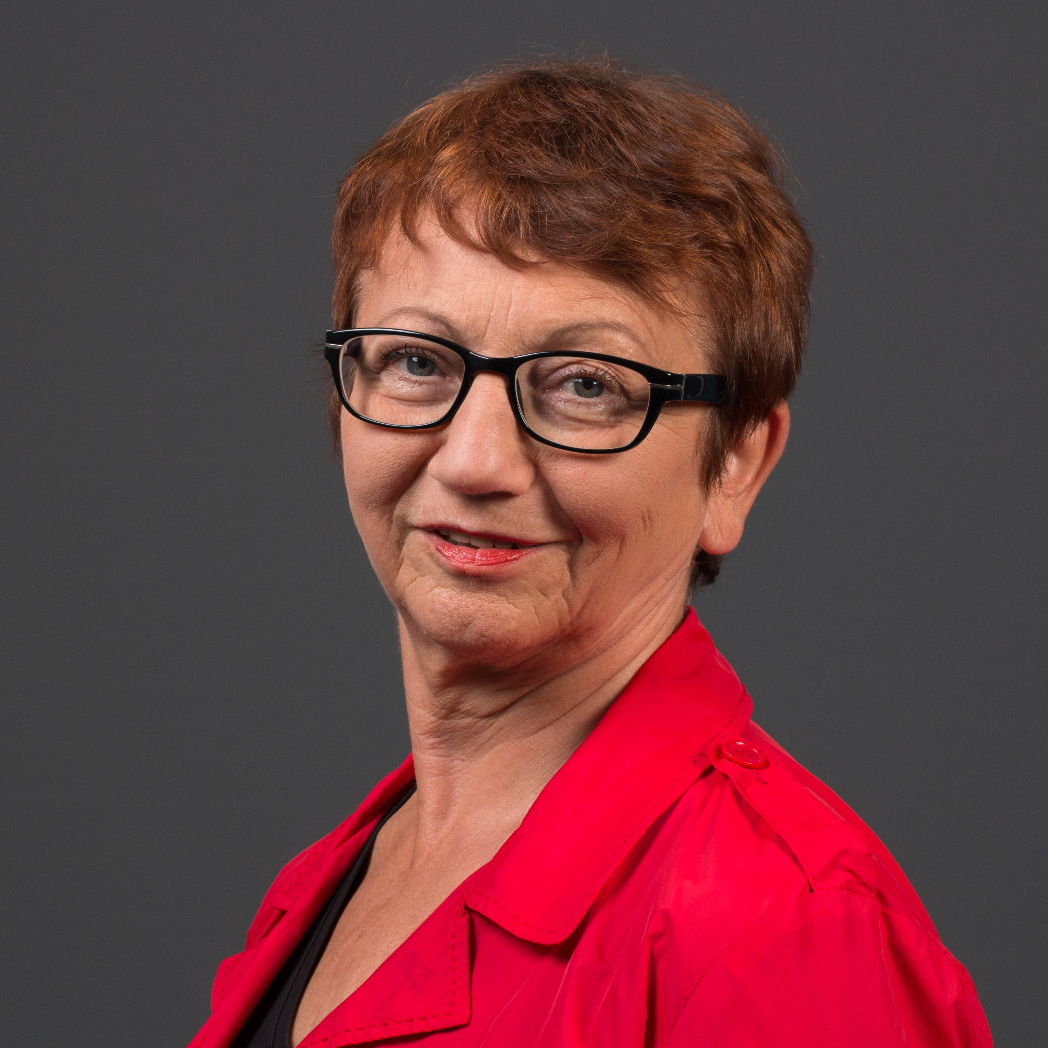 Inge Höger MdB, Die Linke